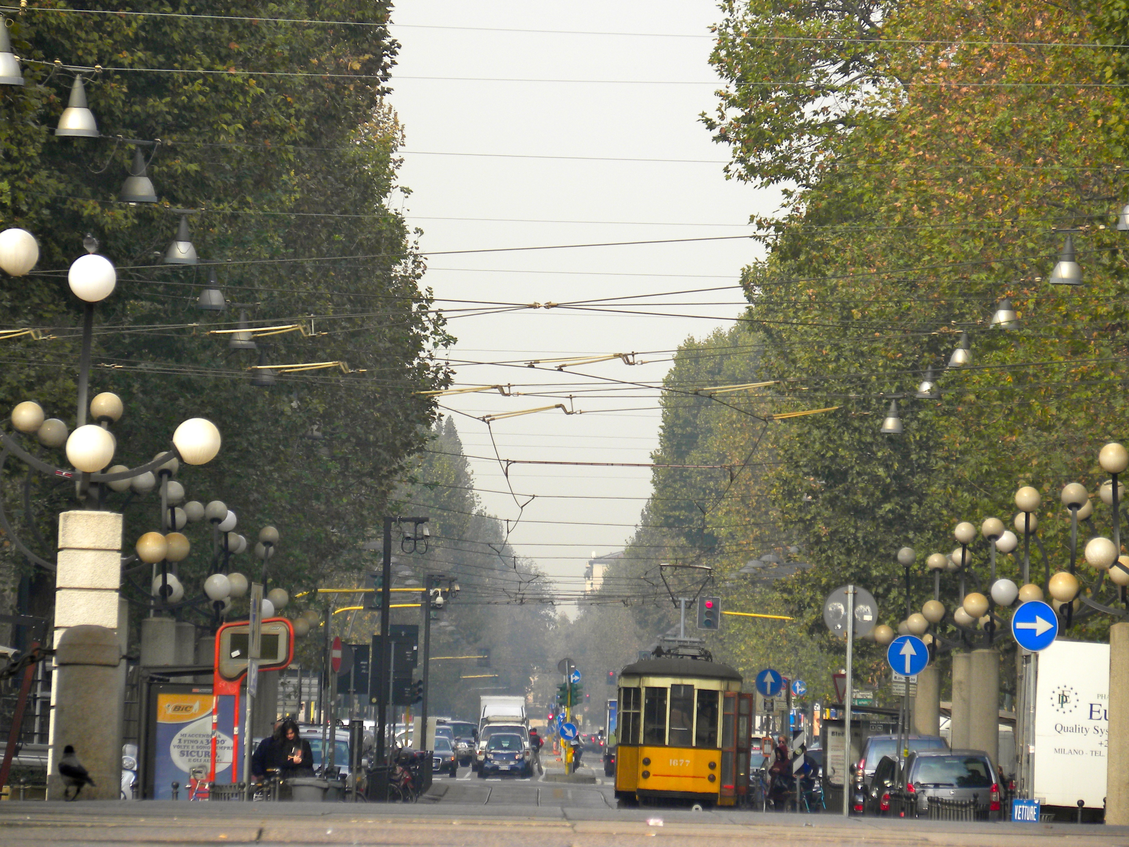 Looking just past the Arco affords a typical Milanese street scene